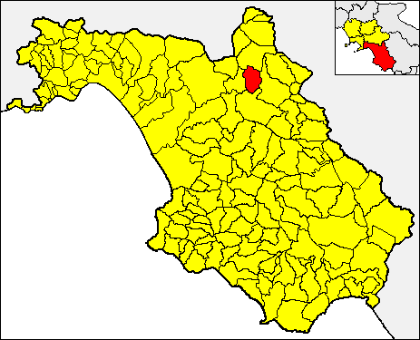 Locator map of the municipality of Palomonte (red) within the Province of Salerno